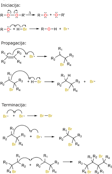 Free radical addition HBr at alkene.